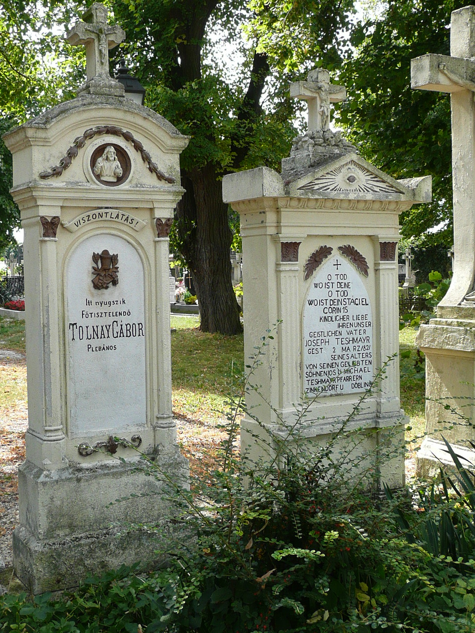 Gravestones in Nagycenk (Hungary). Note the text in German in the right stone in 1882.